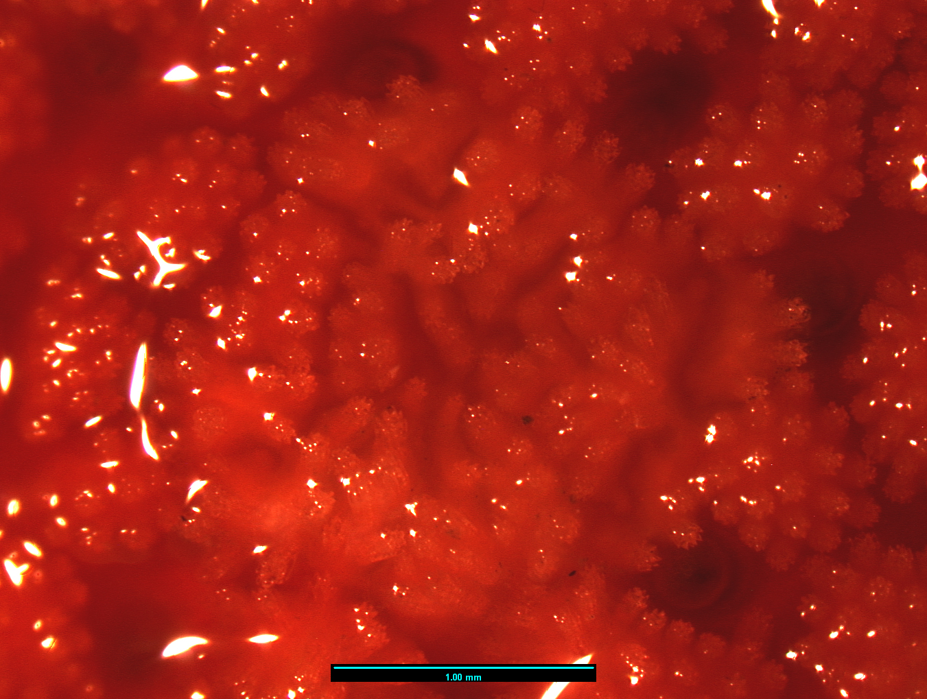 Madreporite of a Pacific blood star, taken on a automontage microscope